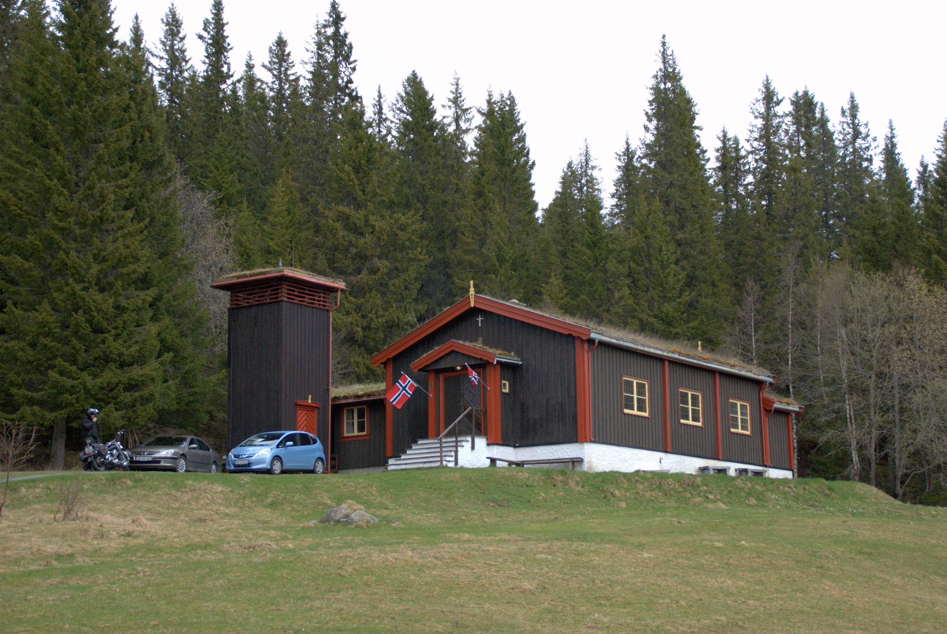 Fjellseter kapell in Bymarka, Trondheim, Norway.